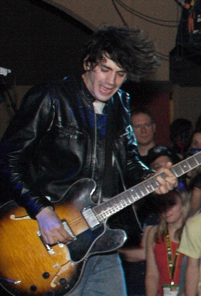 dirty pretty things at eternal